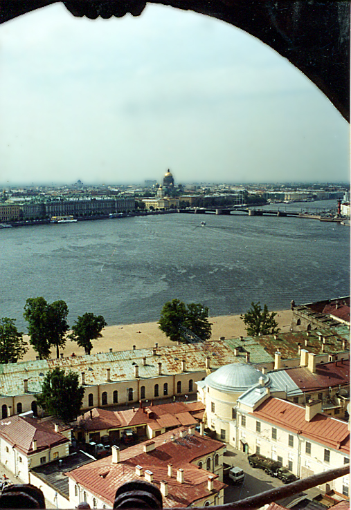 Mint and Neva